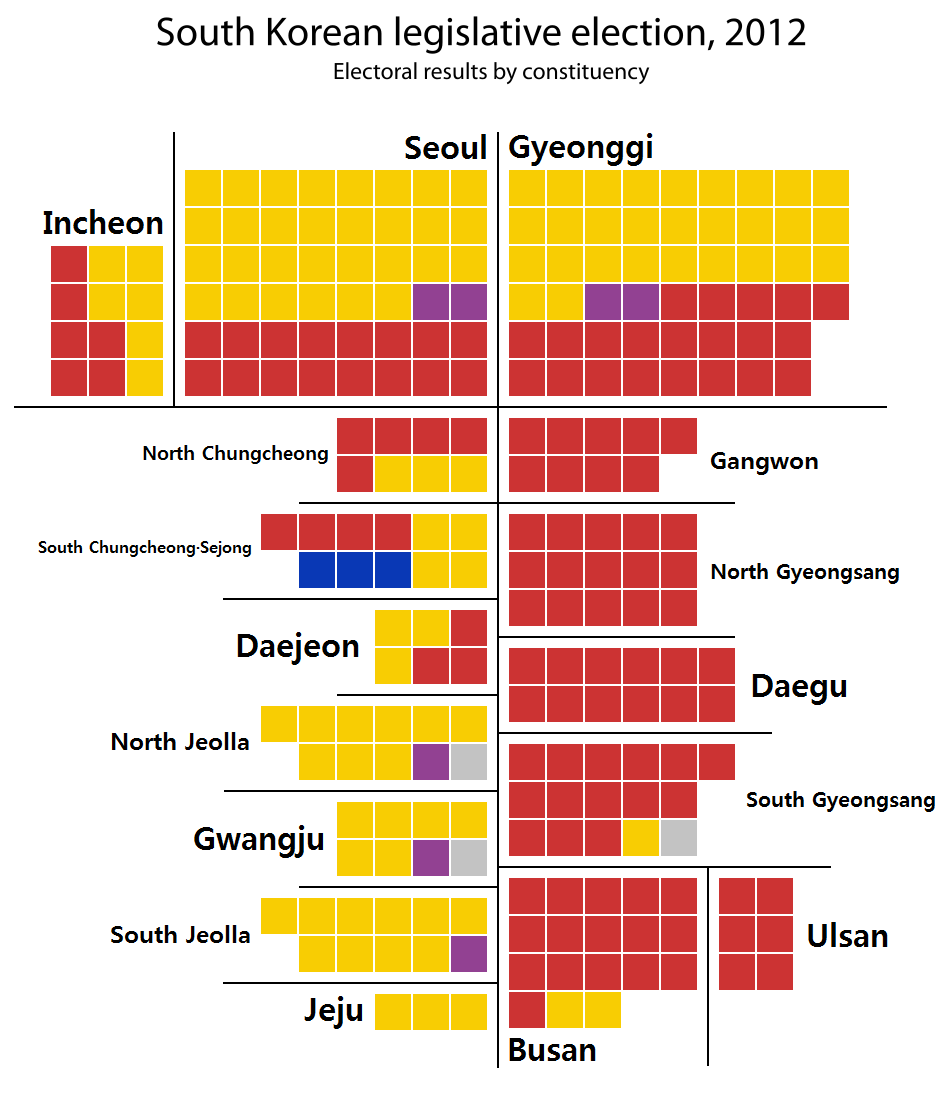 LESK 2012